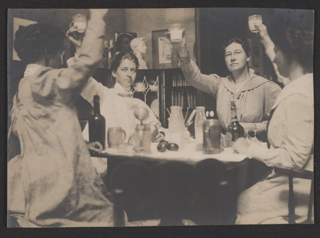 Photograph shows the four women seated around a table, raising their glasses. Oakley and Smith are facing the camera, the other two are turned partially away.